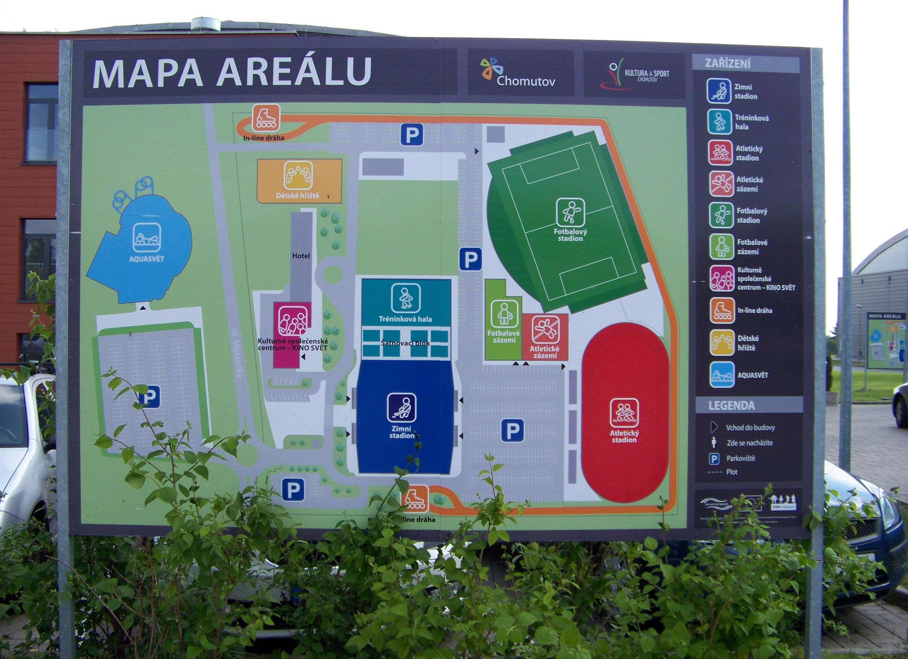 Chomutov, Chomutov District, Ústí nad Labem Region, Czech Republic. Mostecká street, a map of the sports-culture complex.